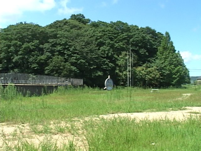 Fuse Tenjinyama castle（布勢天神山城）,Tottori-city